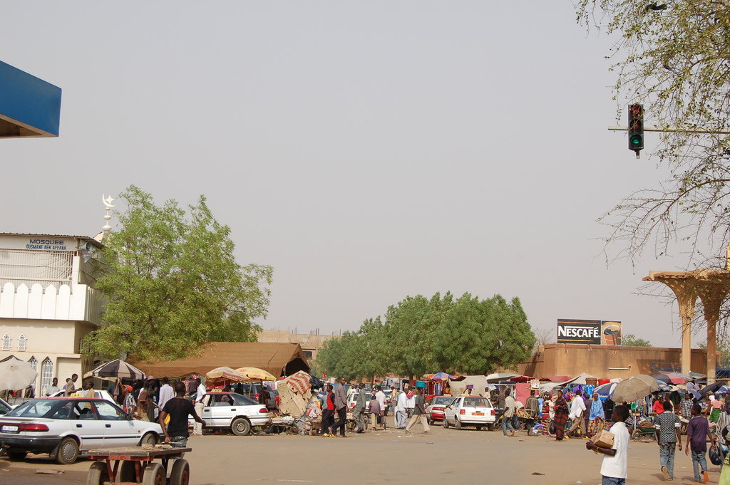 Grand marché, Niamey, Niger 2006